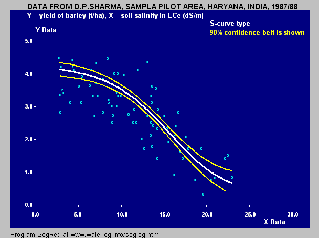 Inverted S-curve used to model the relation between crop yield of barley and soil salinity